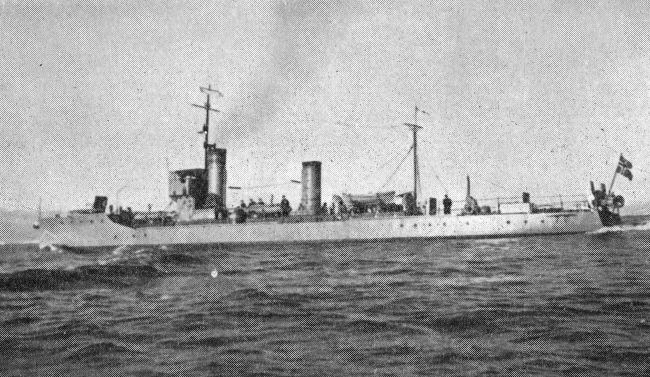 The Norwegian Trygg class torpedo boat HNoMS Trygg